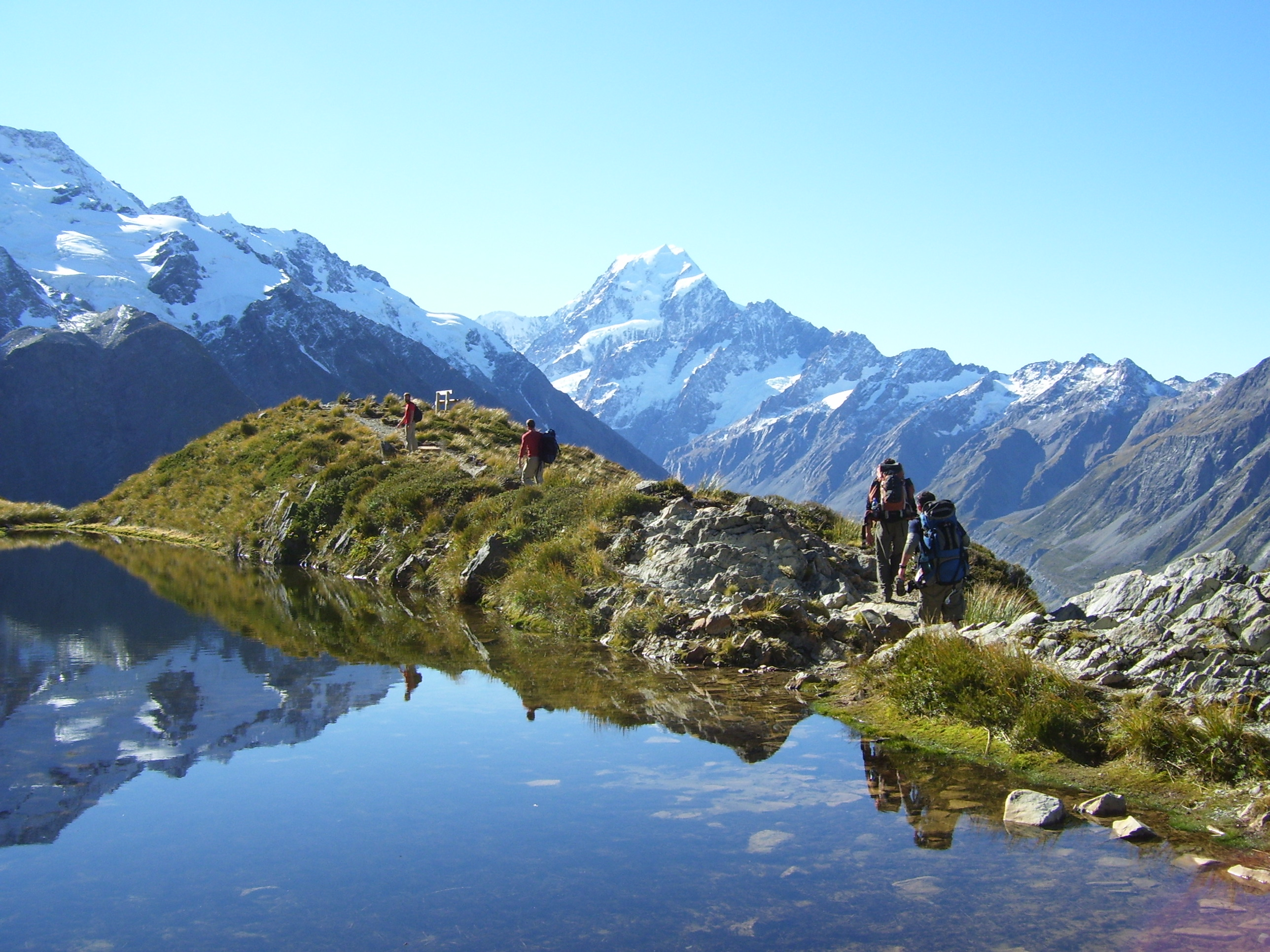 Mt. Cook/Aoraki. Tramping/hiking in Aoraki Mount Cook National Park. This is at Sealy Tarns on the track up to Mueller Hut. Mt. Cook/Aoraki is in the background., Aoraki Mount Cook National Park.